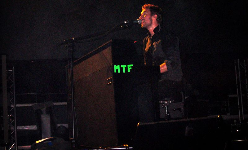 Coldplay